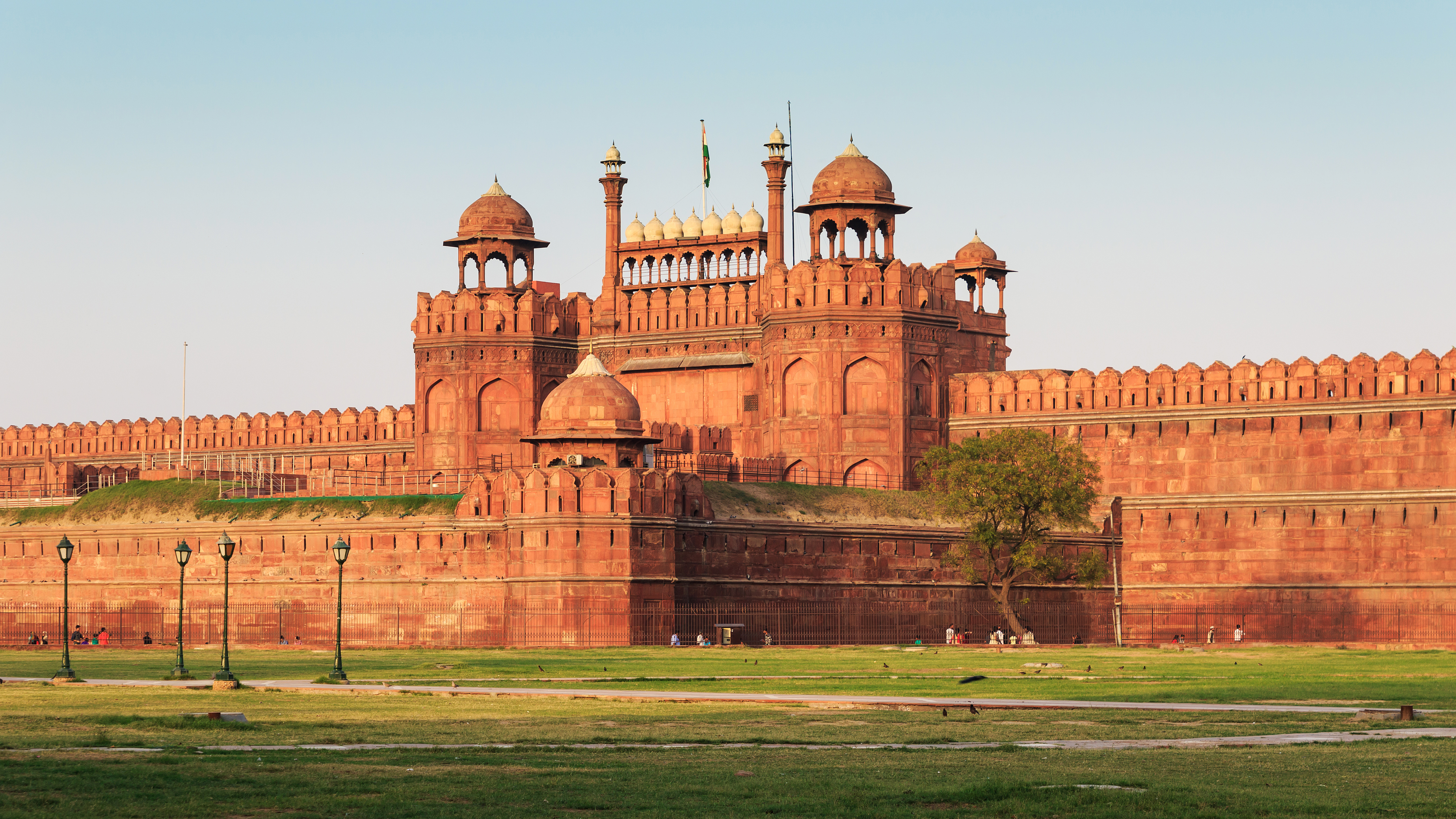 Fortifications of the Red Fort in Delhi, India